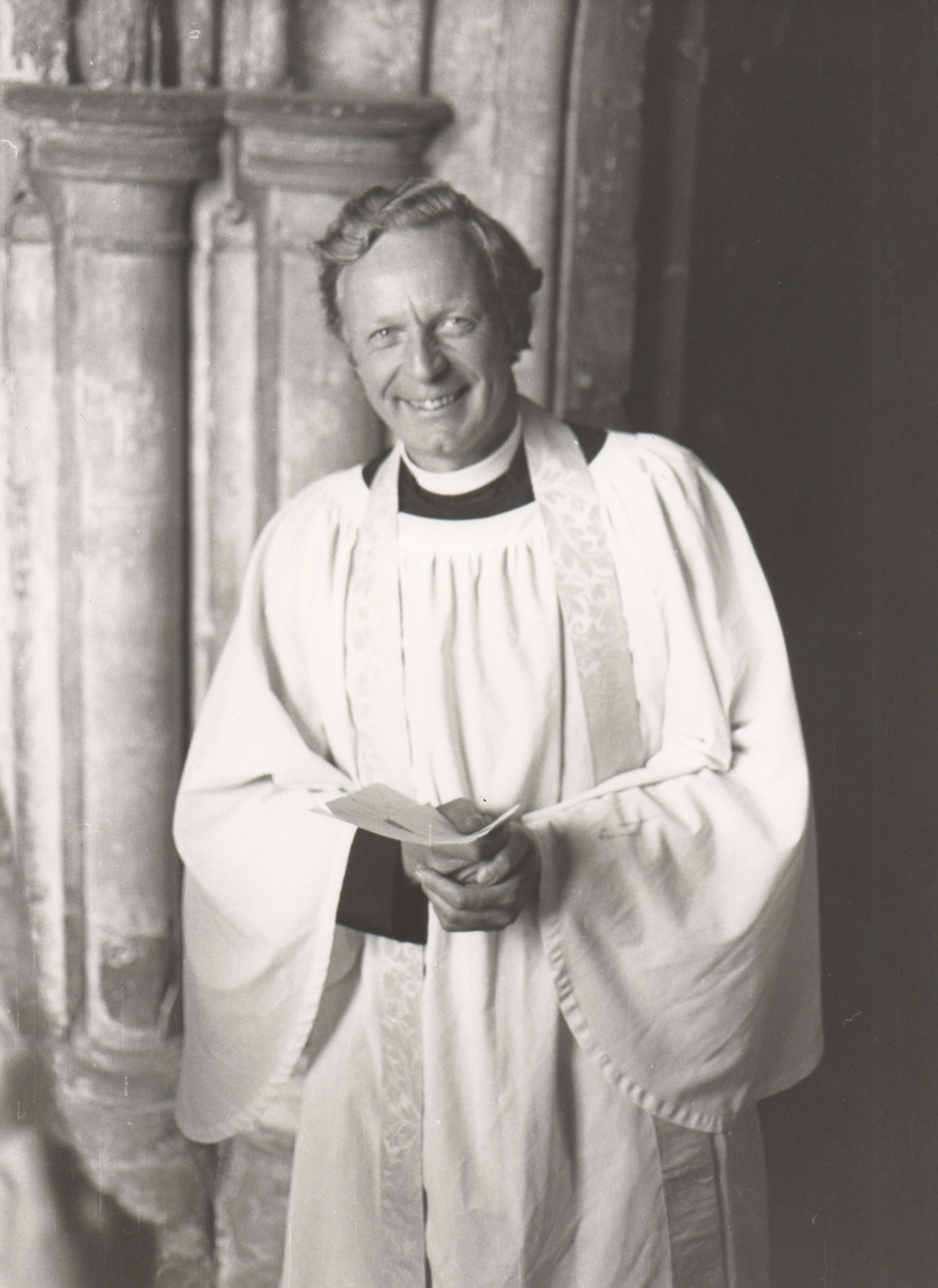 This is Bishop Keith when he was the Bishop of Kingston-upon-Thames, Suffragan Bishop of the Southwark Diocese.